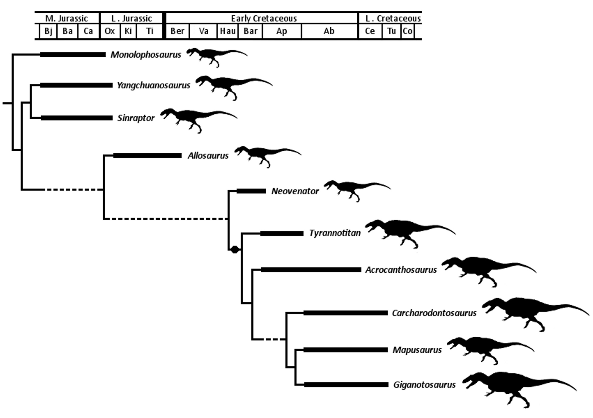 Phylogram and comparison of body size optimization across Allosauroidea. Constructed from the trees recovered by (A) EAC, the present analysis. Silhouettes are to scale according to measurements listed in Table 6.